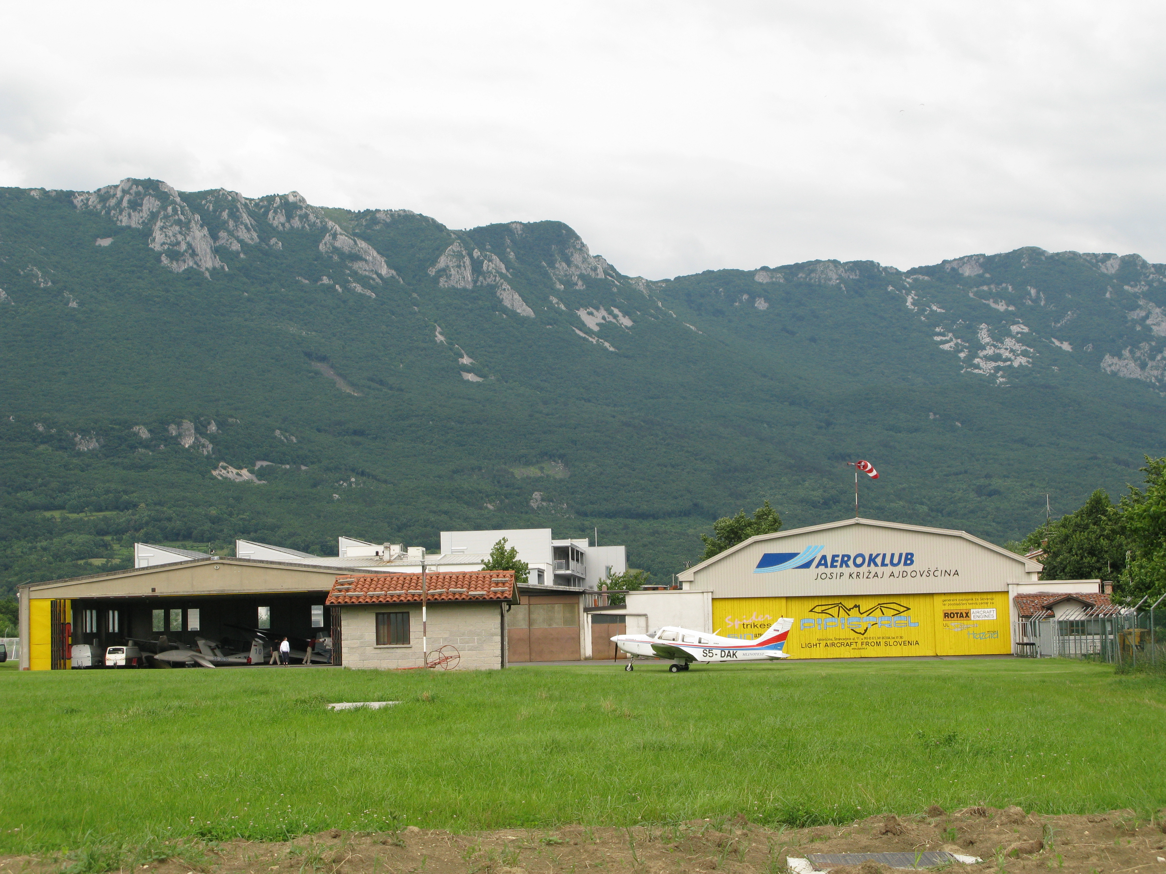 Local airfield in Ajdovščina, home of the aircraft manufacturer Pipistrel